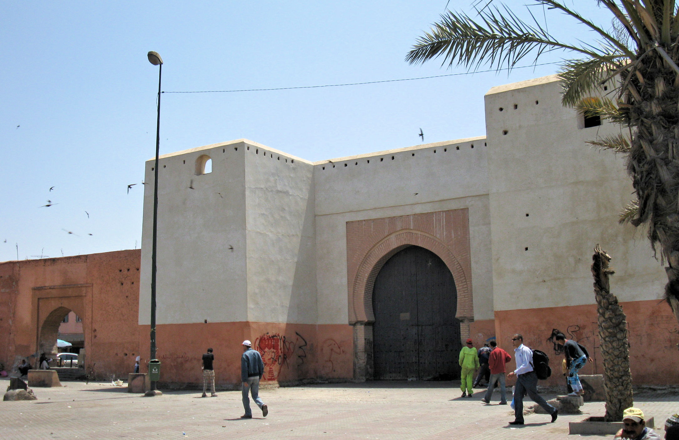 Exterior facade of Bab Doukkala, Marrakesh.